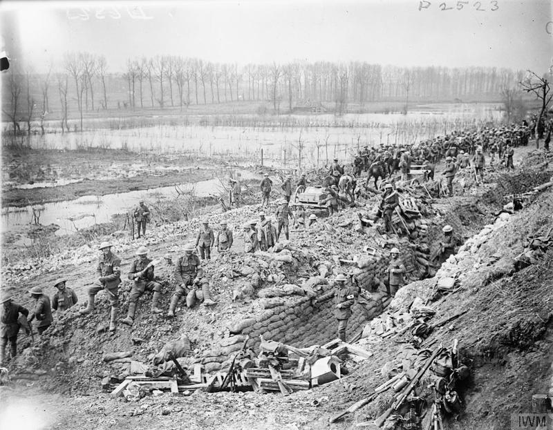 The Battle of Arras, April-may 1917 British stroops of the road beside the Scarpe river at Blangy, April 1917.